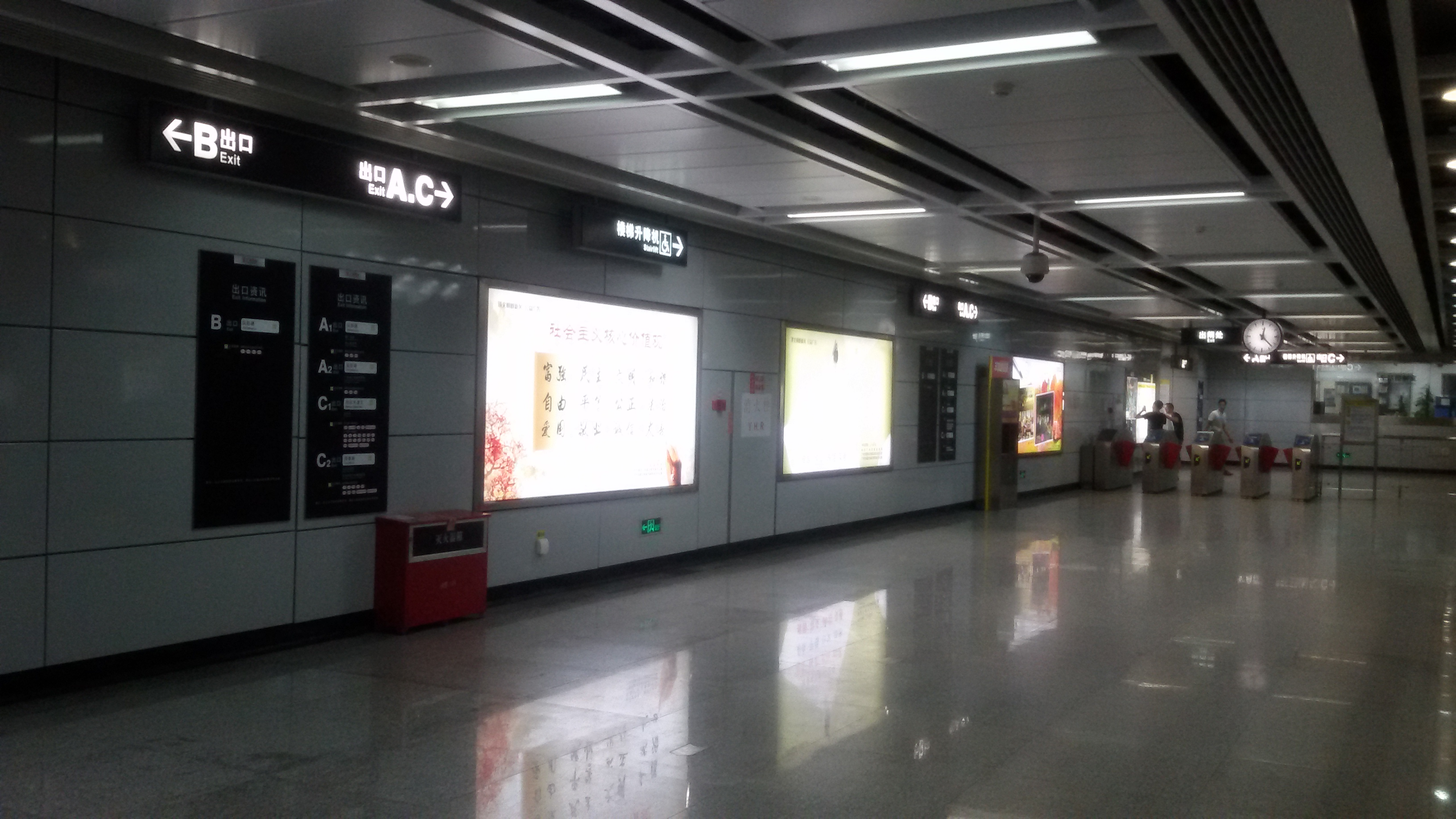 Station Concourse for BaiyunDadaoBei Station, Guangzhou Metro.